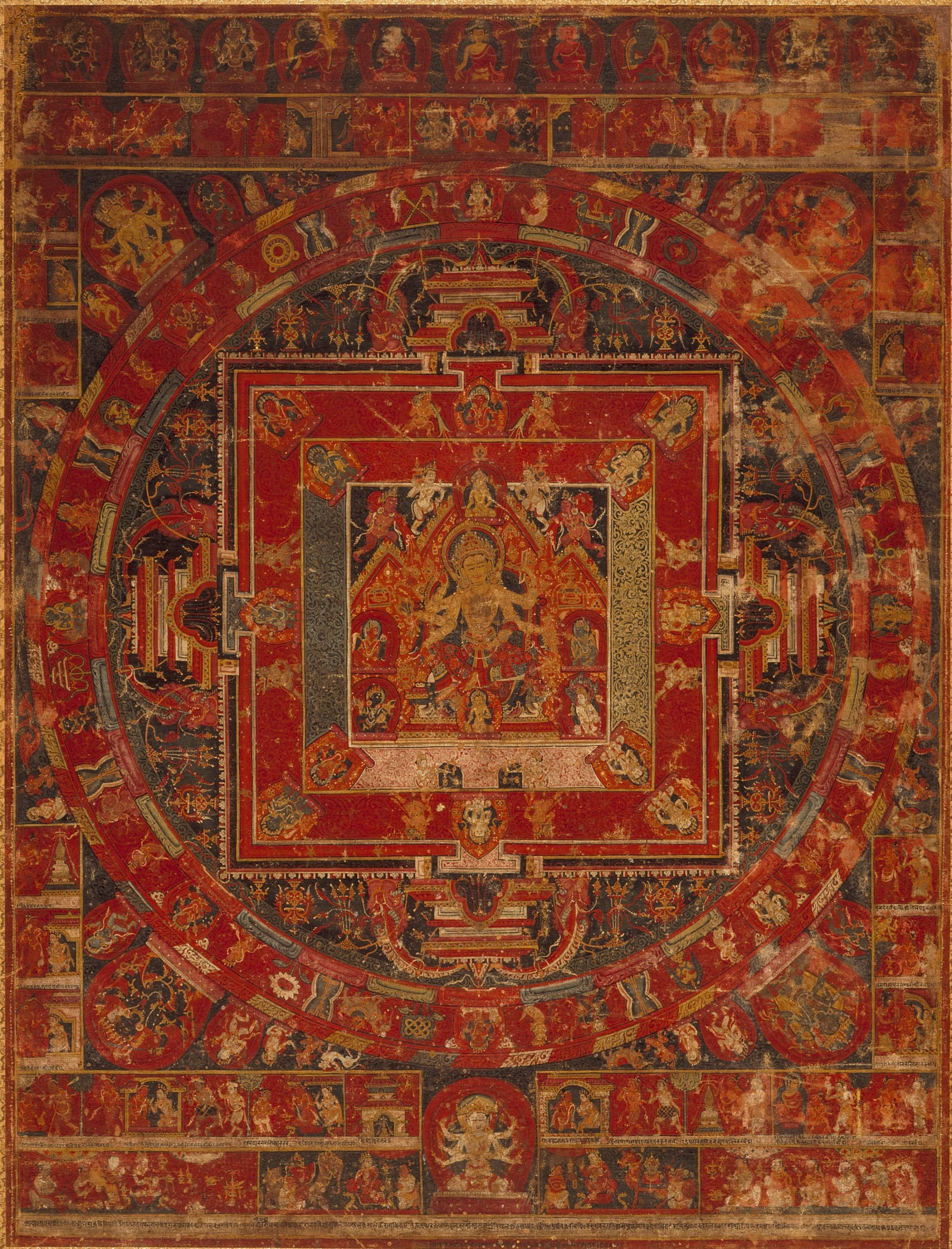 Nepal, Dated 1495 Paintings Mineral pigments on cotton cloth From the Nasli and Alice Heeramaneck Collection, Museum Associates Purchase (M.77.19.7) South and Southeast Asian Art